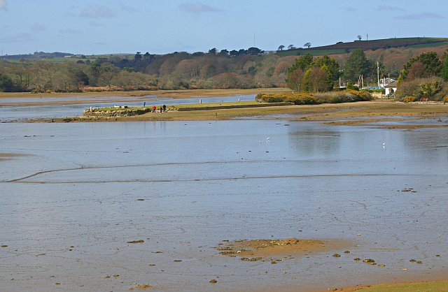 The Eastern End of Devoran Moorings. Looking across Tallack's Creek to the now unused easternmost end of the moorings at Devoran. For other views of Tallack's Creek see 225053 and 222058